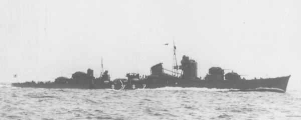 Imperial Japanese Navy Destroyer "Akizuki" (Akizuki-class) on trial run off Miyazu Bay.